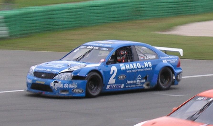 Donny Crevels